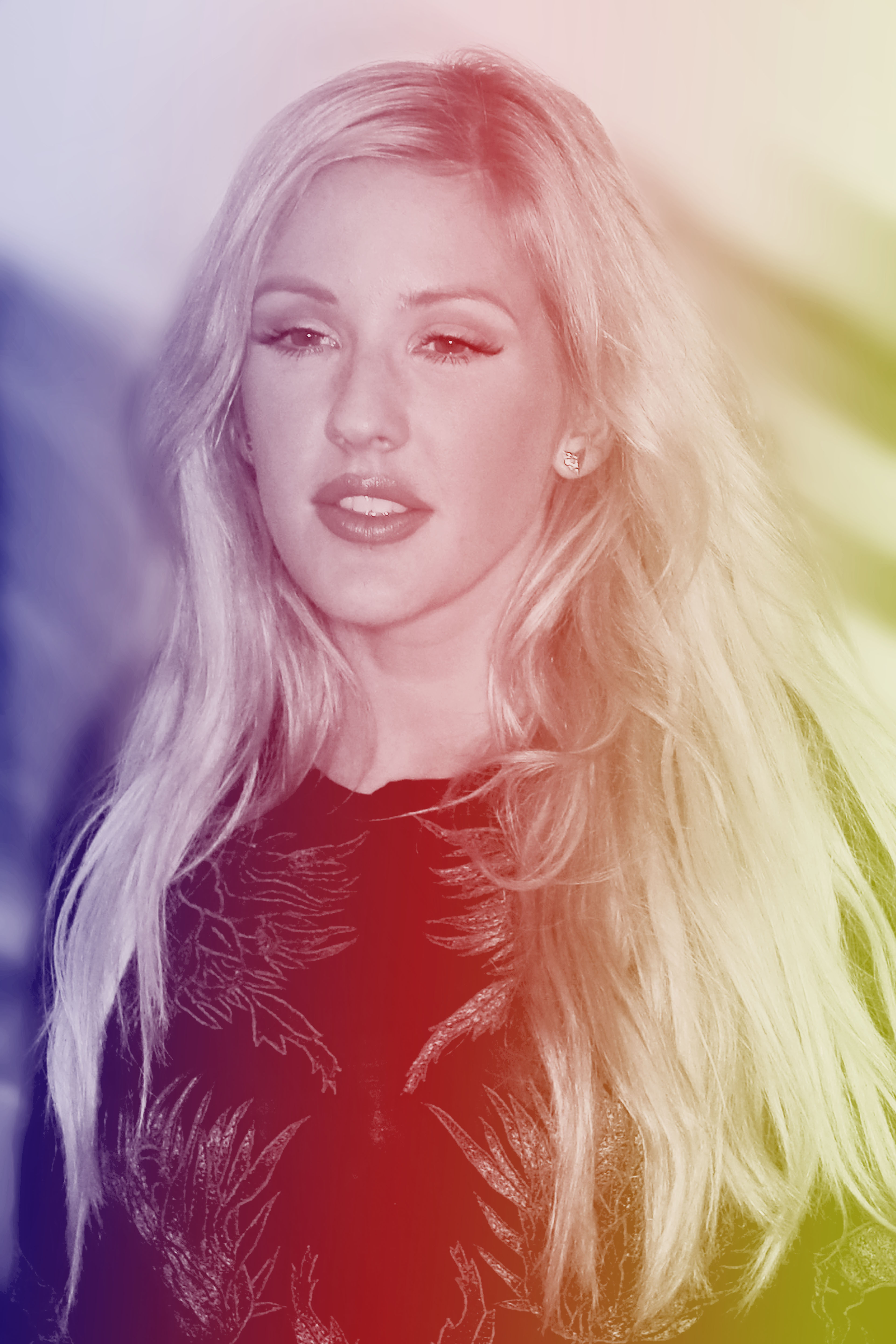 by Walterlan Papetti